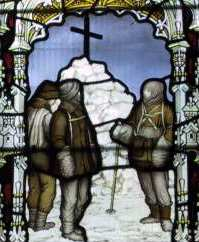 One of the four panes of a stained glass window in Binton church, Warwickshire. It serves as a memorial to Robert Falcon Scott and his expedition. The window was paid for with public funds and unveiled in 1915.[1] The artists were Herbert George Ponting and the artists of Charles Eamer Kempe and Company.[2] This particular pane marks the erection of a cairn for Captain Scott, Doctor Wilson, and Lieutenant Bowers.[3] The window is in the public domain in both United States and the United Kingdom, as an unpublished piece of art whose authors have passed away more than 70 years ago.